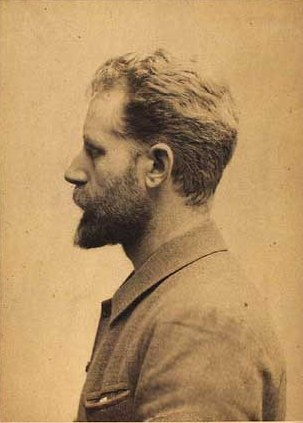 Niels Pedersen Mols (1859-1921), Danish painter of landscapes and animals